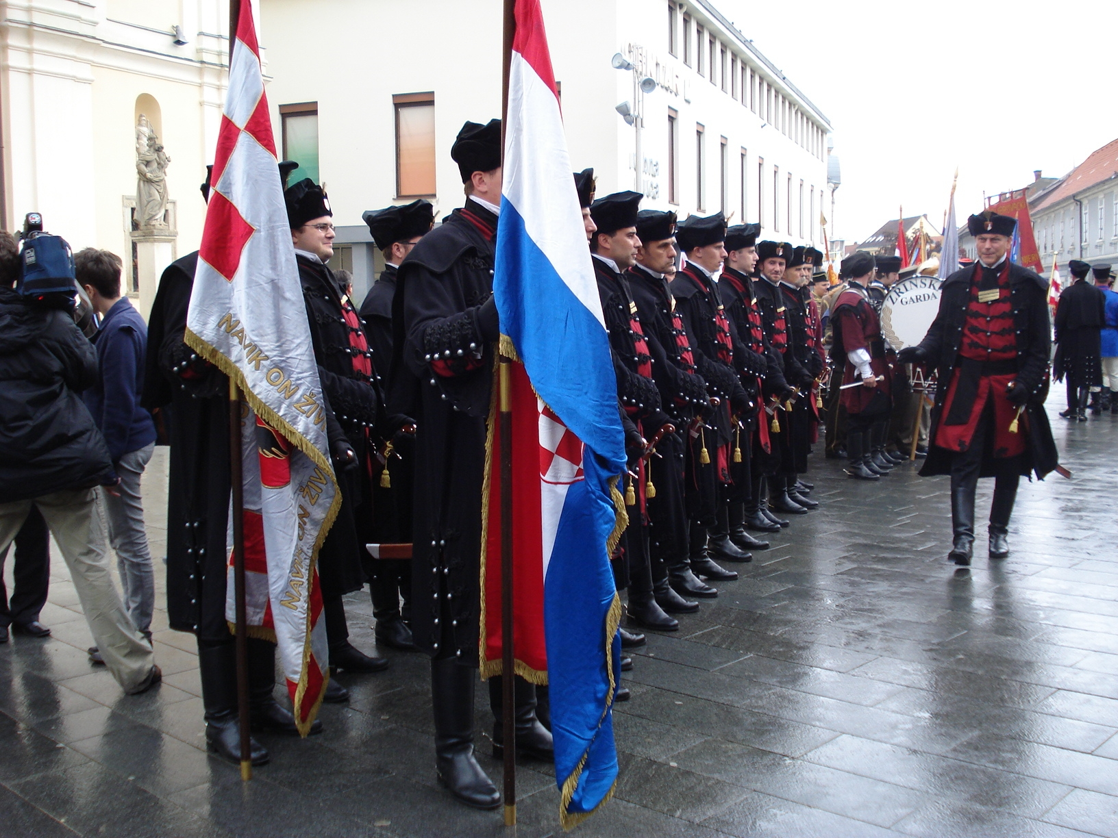 Zrinski guard - historical military unit from Čakovec, northern Croatia (16th century), at Franciscan square